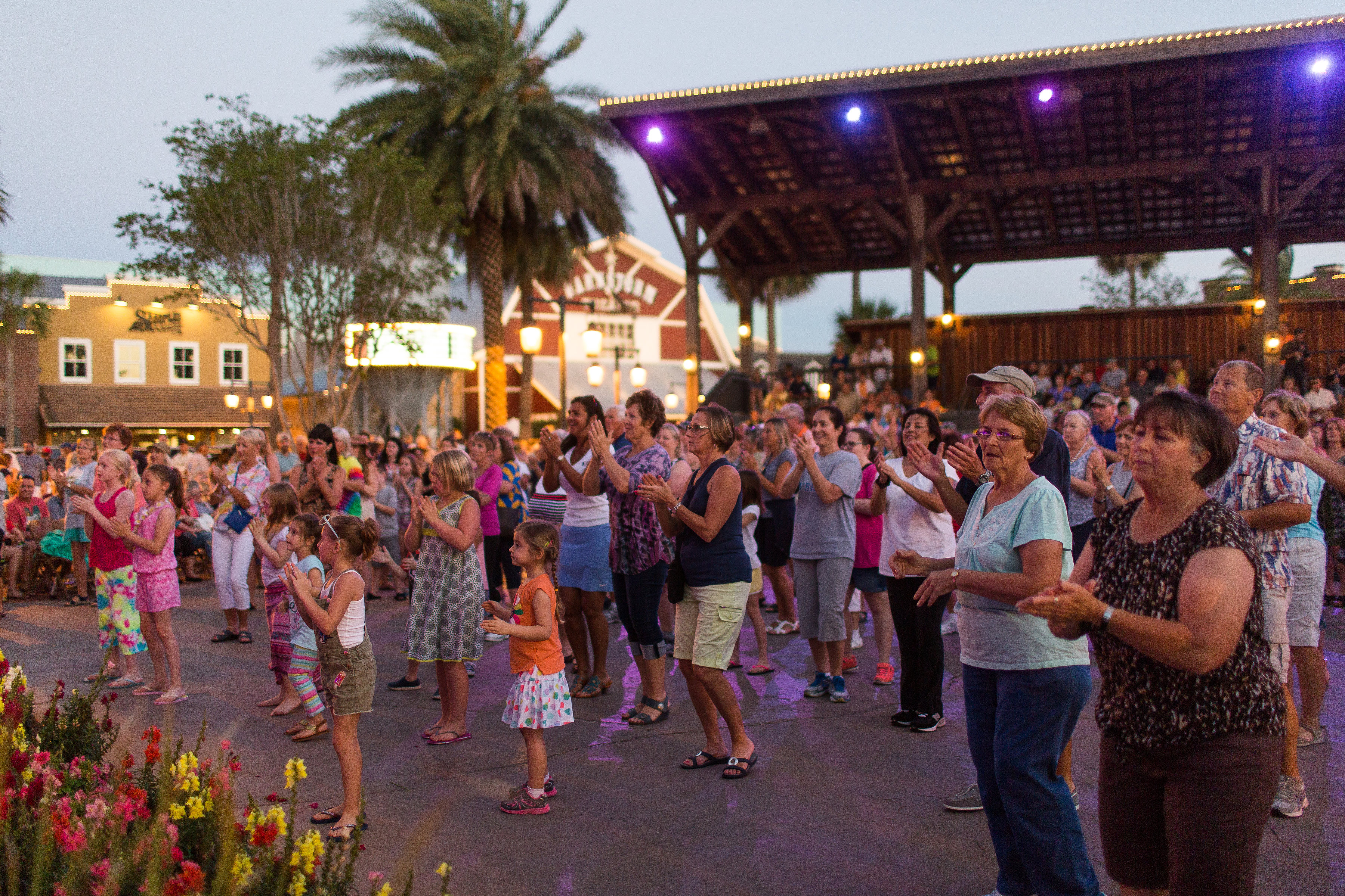 Photo of a town square event in The Villages